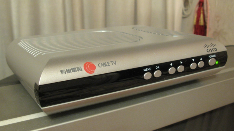 Hong Kong Cable Television Settop Box Version 2009